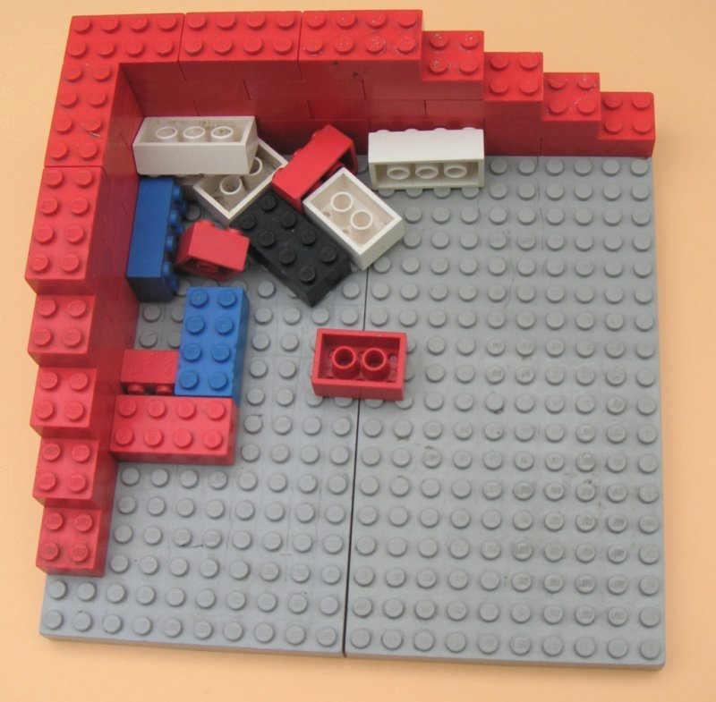 LEGO bricks